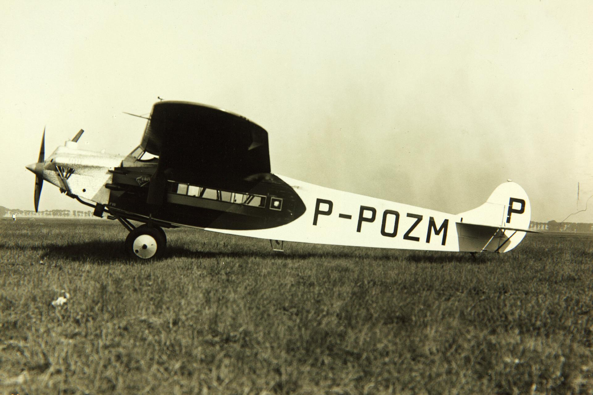 Fokker F.VIIa P-POZM, which flew with the Polish airline LOT. LOT's F.VIIa aircraft had Lorraine 12Eb engines built under license in Poland. This engine was a "broad arrow" W-12, modeled after the Napier Lion. Catalog #: 01_00080281 Title: Fokker, F.VII Corporation Name: Fokker Additional Information: Single engine Designation: F.VII Tags: Fokker, F.VII Repository: San Diego Air and Space Museum Archive